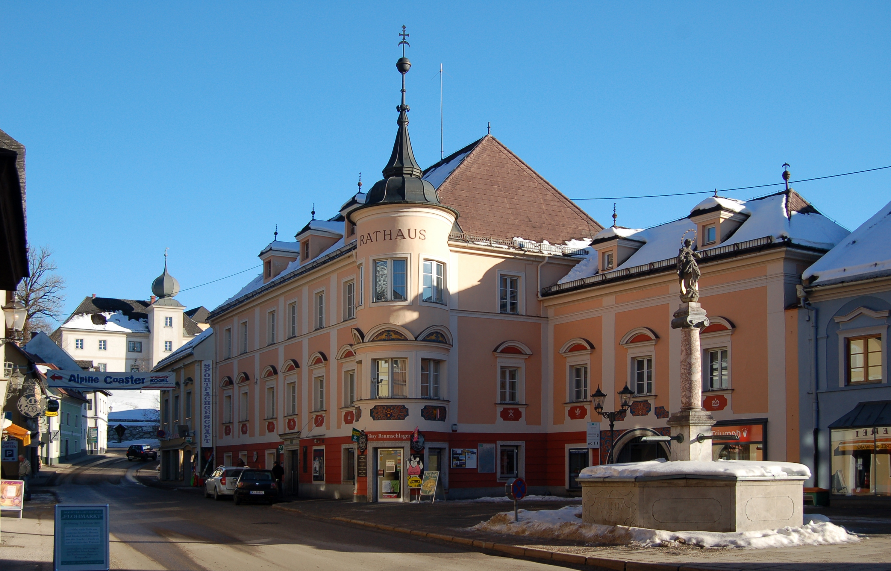 The town hall (Rüstlehen) of Windischgarsten, Upper Austria, is protected as a cultural heritage monument. in the foreground the Marktbrunnen, in the left background the rectory.